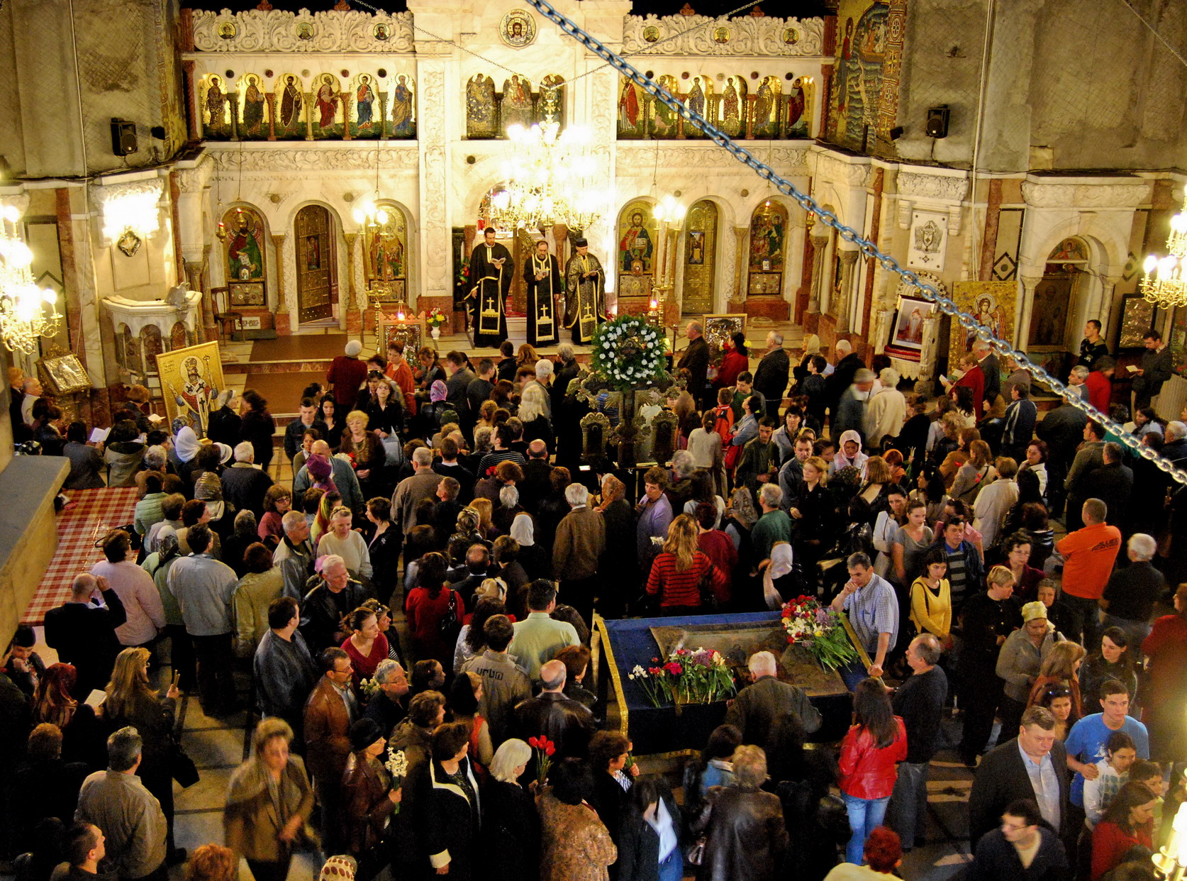 This image was taken during the divine service of Great Friday 2009 at the Cashin Church in Bucharest. On Great and Holy Friday the Orthodox Church commemorates the death of Christ on the Cross. This is the culmination of the observance of His Passion by which our Lord suffered and died for our sins. This commemoration begins on Thursday evening with the Matins of Holy Friday and concludes with a Vespers on Friday afternoon that observes the unnailing of Christ from the Cross and the placement of His body in the tomb. The divine services of Great Friday with the richness of their ample Scripture lessons, superb hymnography and vivid liturgical actions bring the passion of Christ and its cosmic significance into sharp focus. The hymns of the services on this day help us to see how the Church understands and celebrates the awesome mystery of Christ's passion and death.